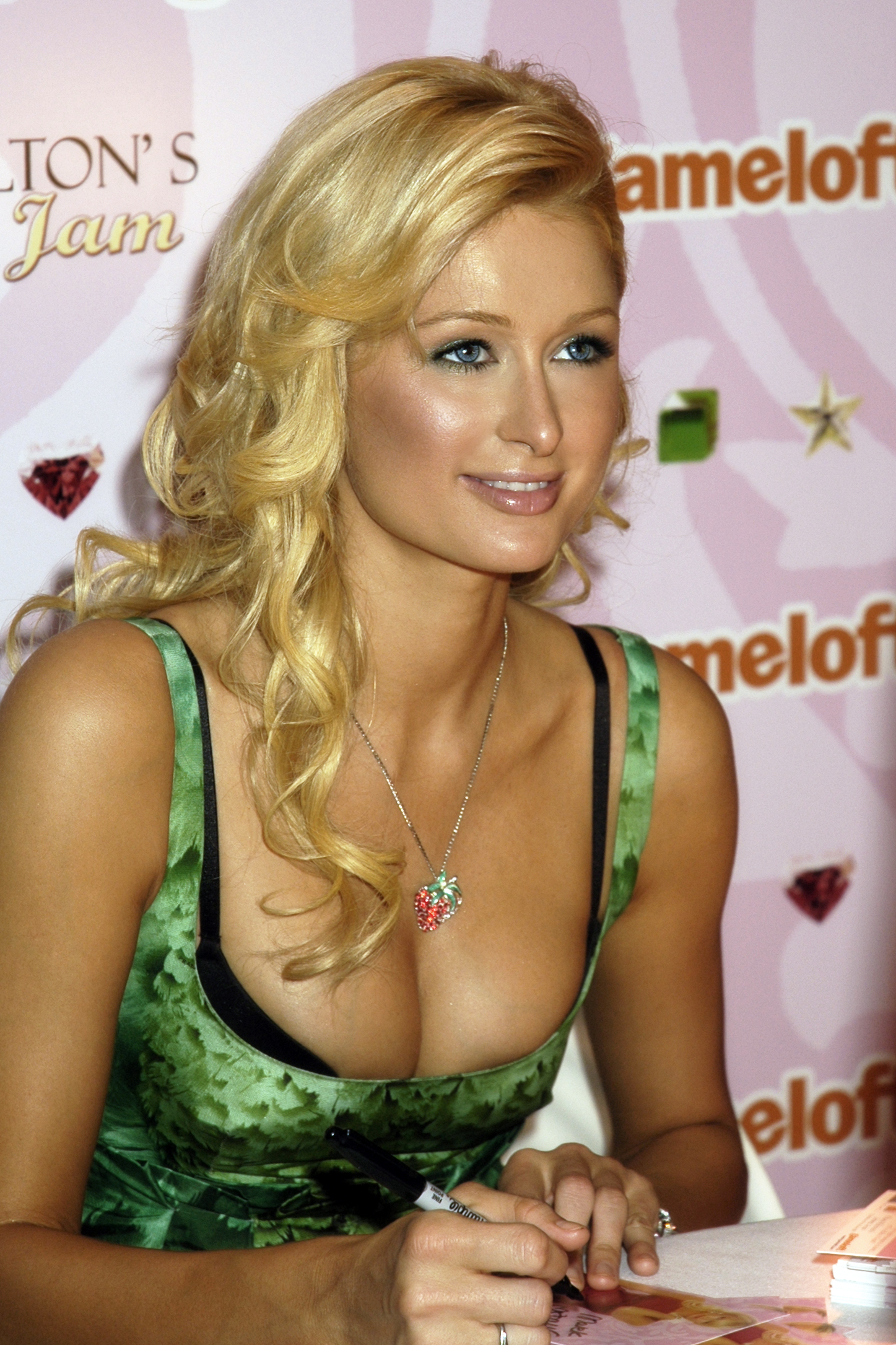 Paris Hilton promoting her cell-phone video game: Jewel Jam during the E3 Video Game Convention.